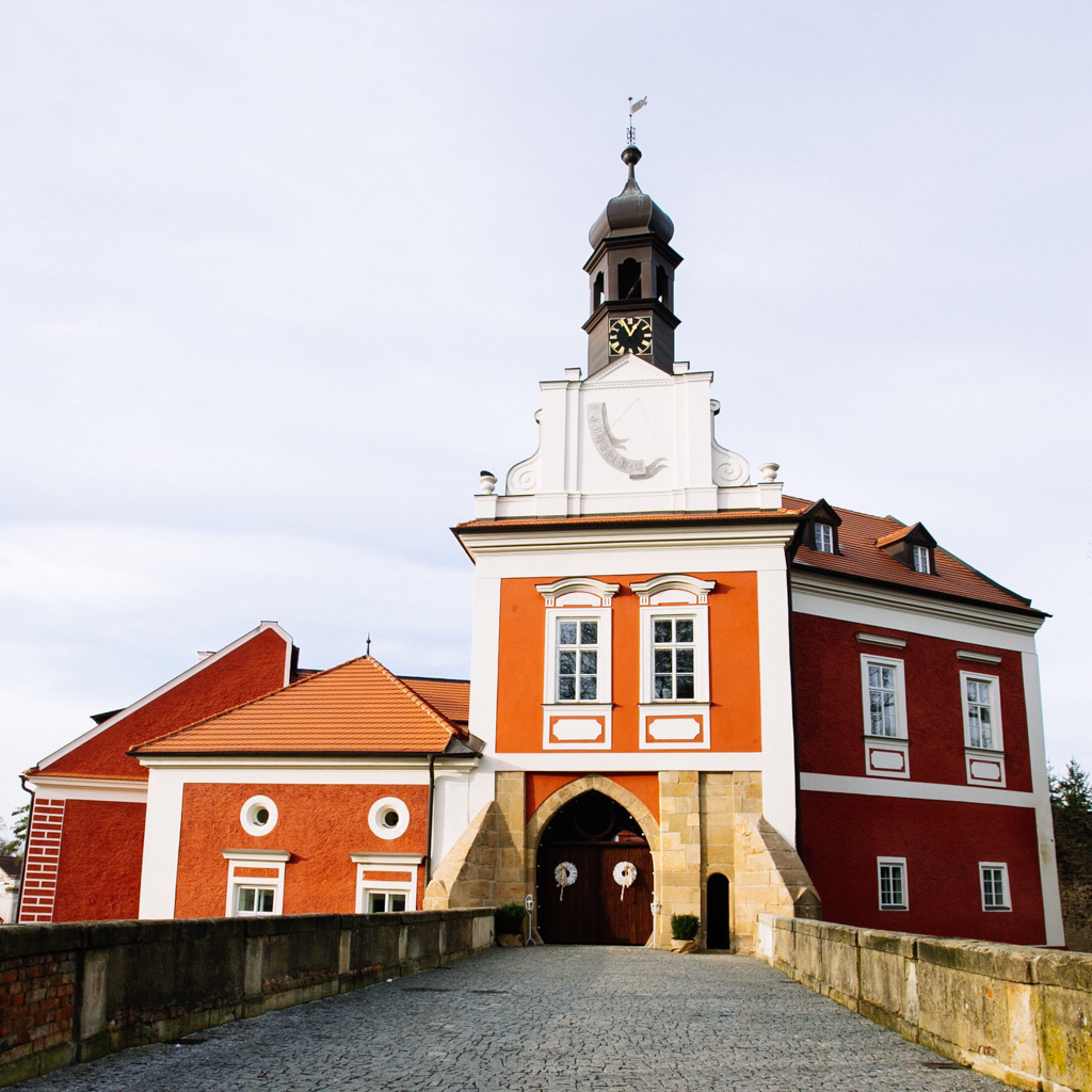 The Savoia Castle in Škvorec